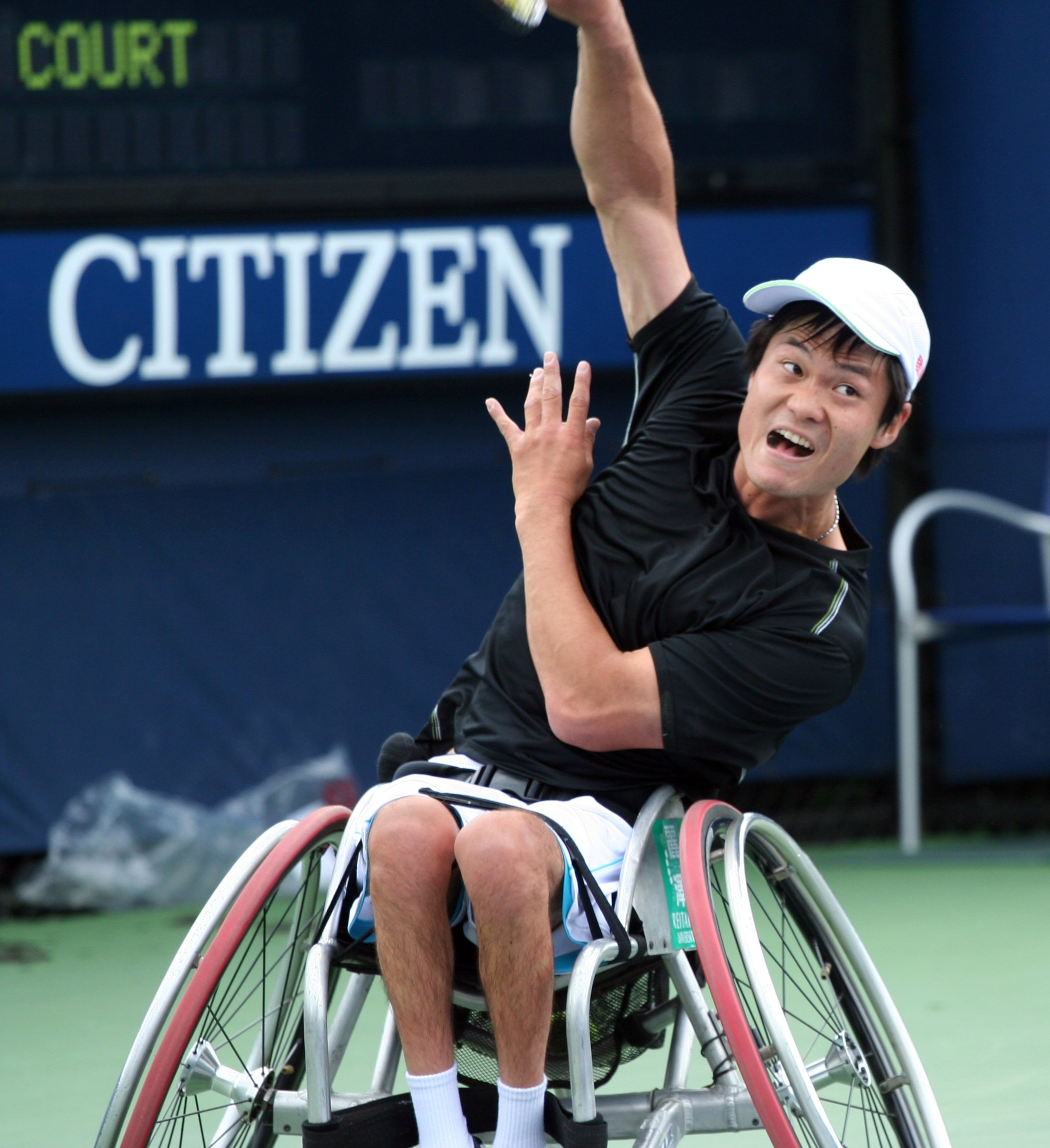 U.S. Open Wheelchair Thursday, Sept. 10, 2009